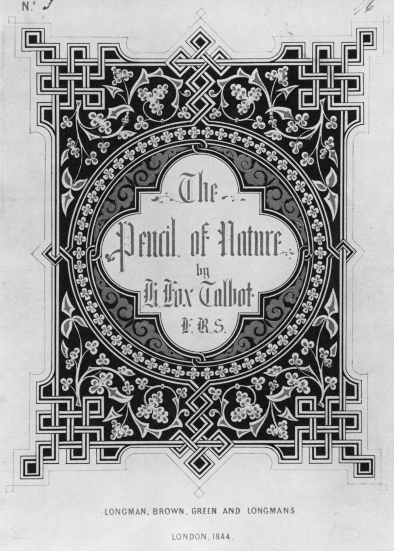 Cover of "Pencil of Nature", a collection of early photographs.